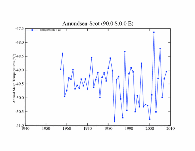 Climate graph of 1957 2009 air average temperaturas at Admunsen-Scott Base (Antarctis)